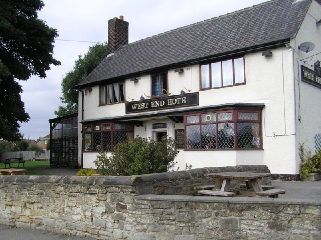 West End Hotel, Killamarsh. My local - what more can I say. Technically, the pub is at Westthorpe and would have been just across the road from the abandoned Westthorpe pit. The pub faces south.